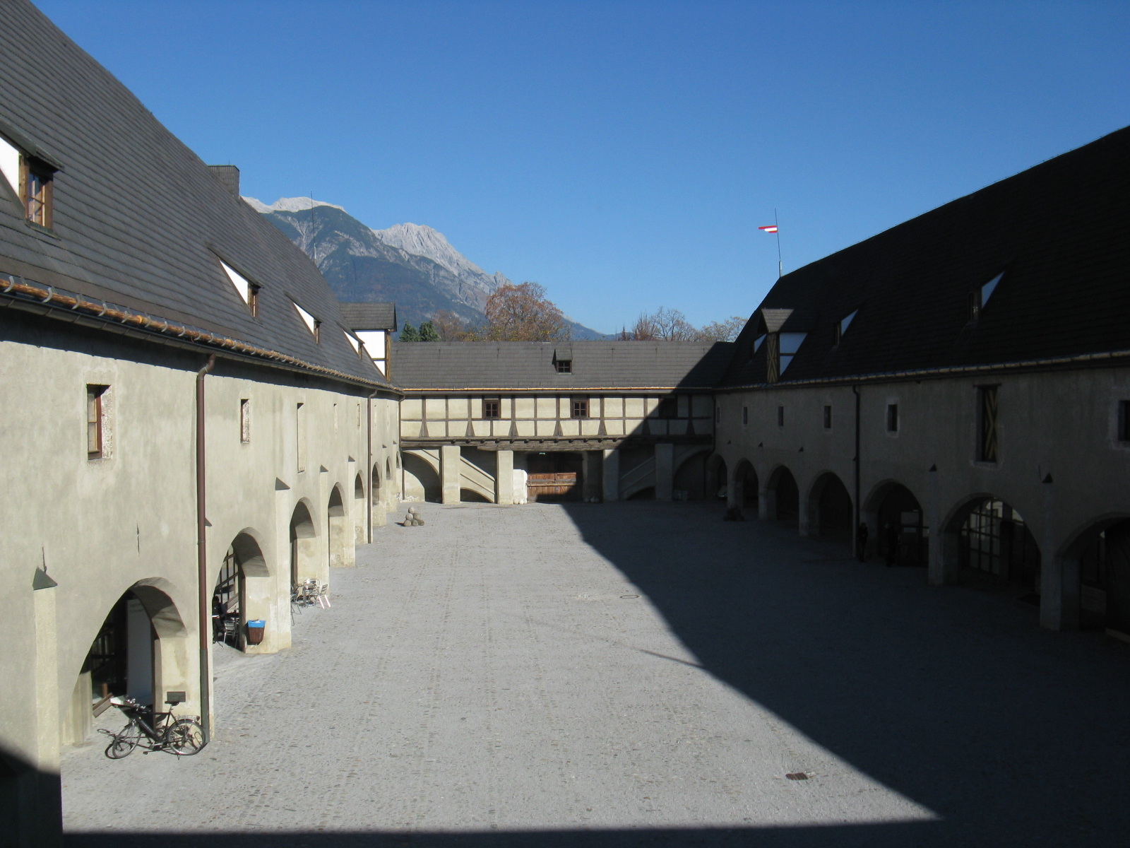 inner court of Zeughaus in Innsbruck part of Tiroler Landesmuseum